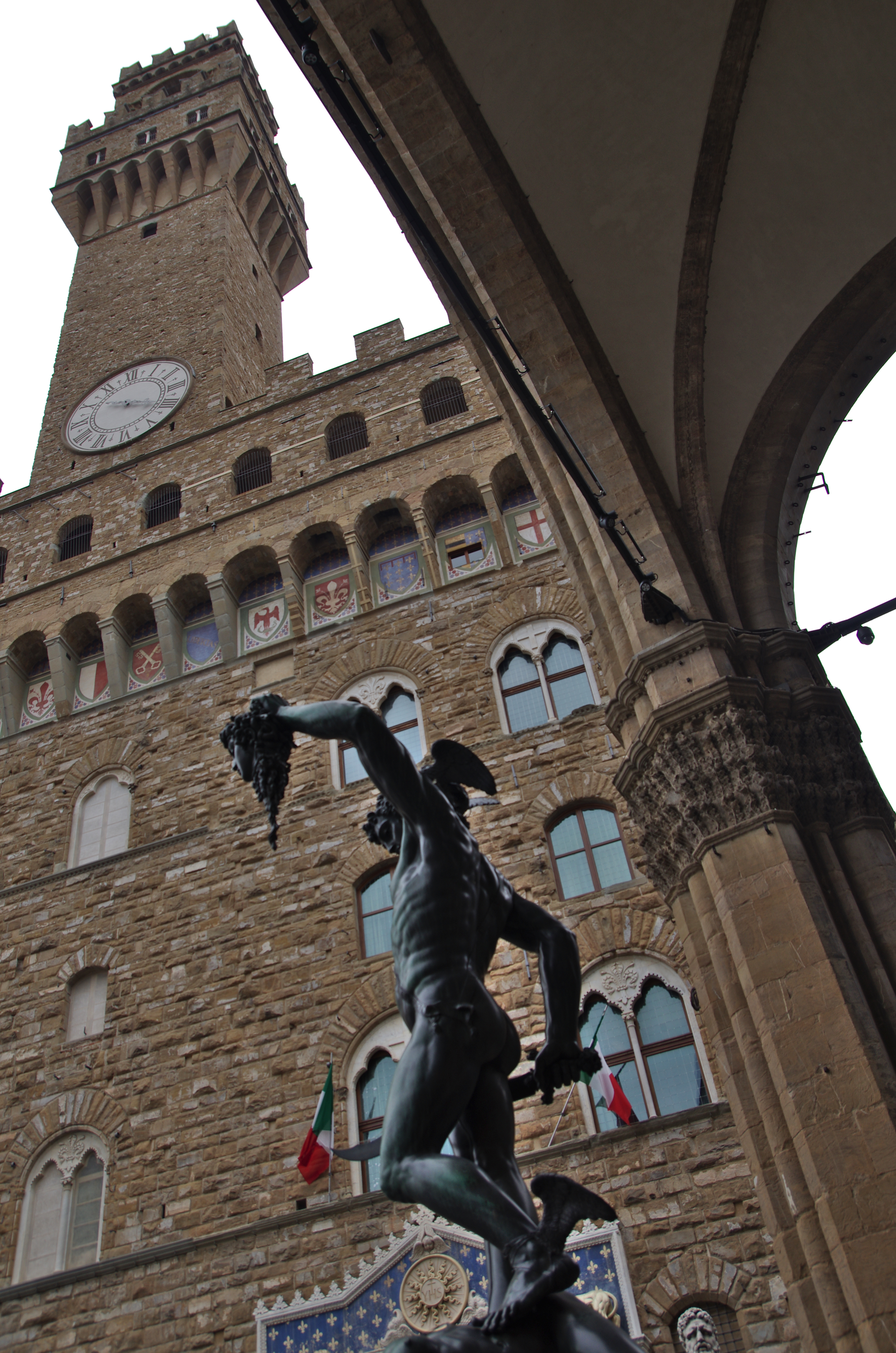 03 2015 Perseus with the head of Medusa-Benvenuto Cellini-Piazza della Signoria-Loggia dei Lanzi-vault-Corinthian order-Palazzo Vecchio-Torre Arnolfo-mullioned cuspidate-Machicolations (Florence) Photo Paolo Villa FOTO9270bis